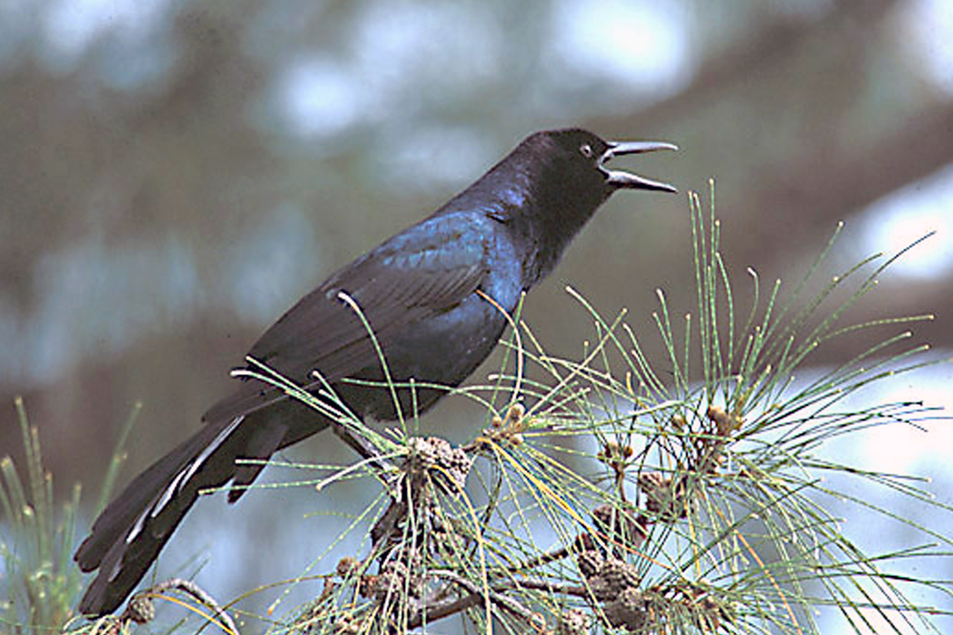 Boat-tailed Grackle are year round residents of Sanibel Island, Florida.